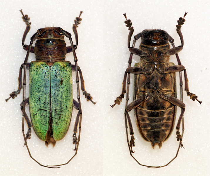 Breuning,1936 Sex: Female Data: 04-2013 - Ebogo - Cameroon Size: ?